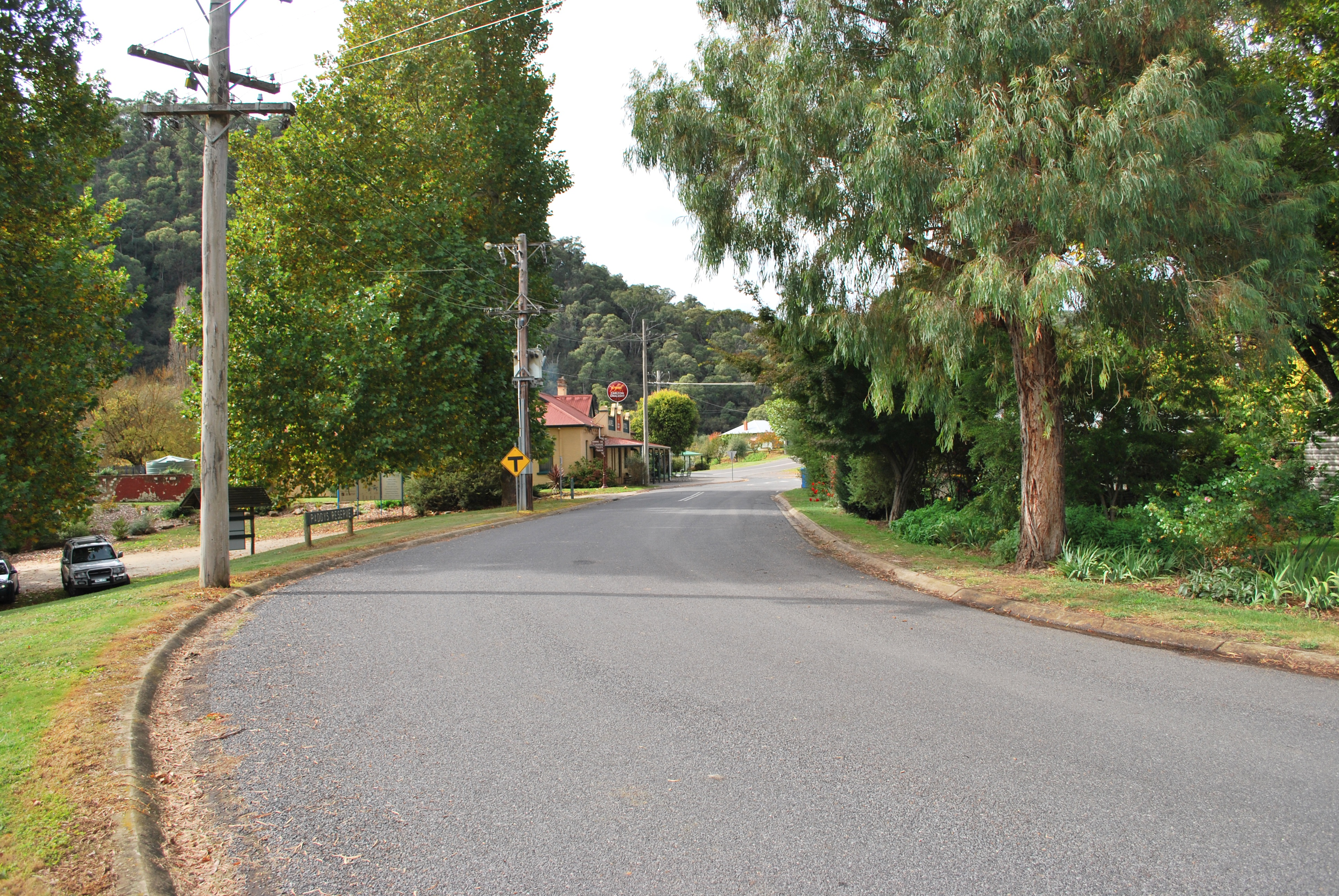 Looking down the street towards the Laurel Hotel at Mitta Mitta, Victoria